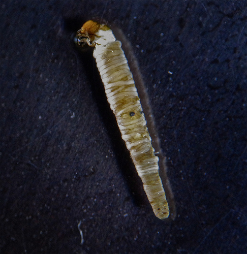 Taken by Bob Henricks on 18 February 2010. Rights reserved from CC BY-SA 2.0 license.